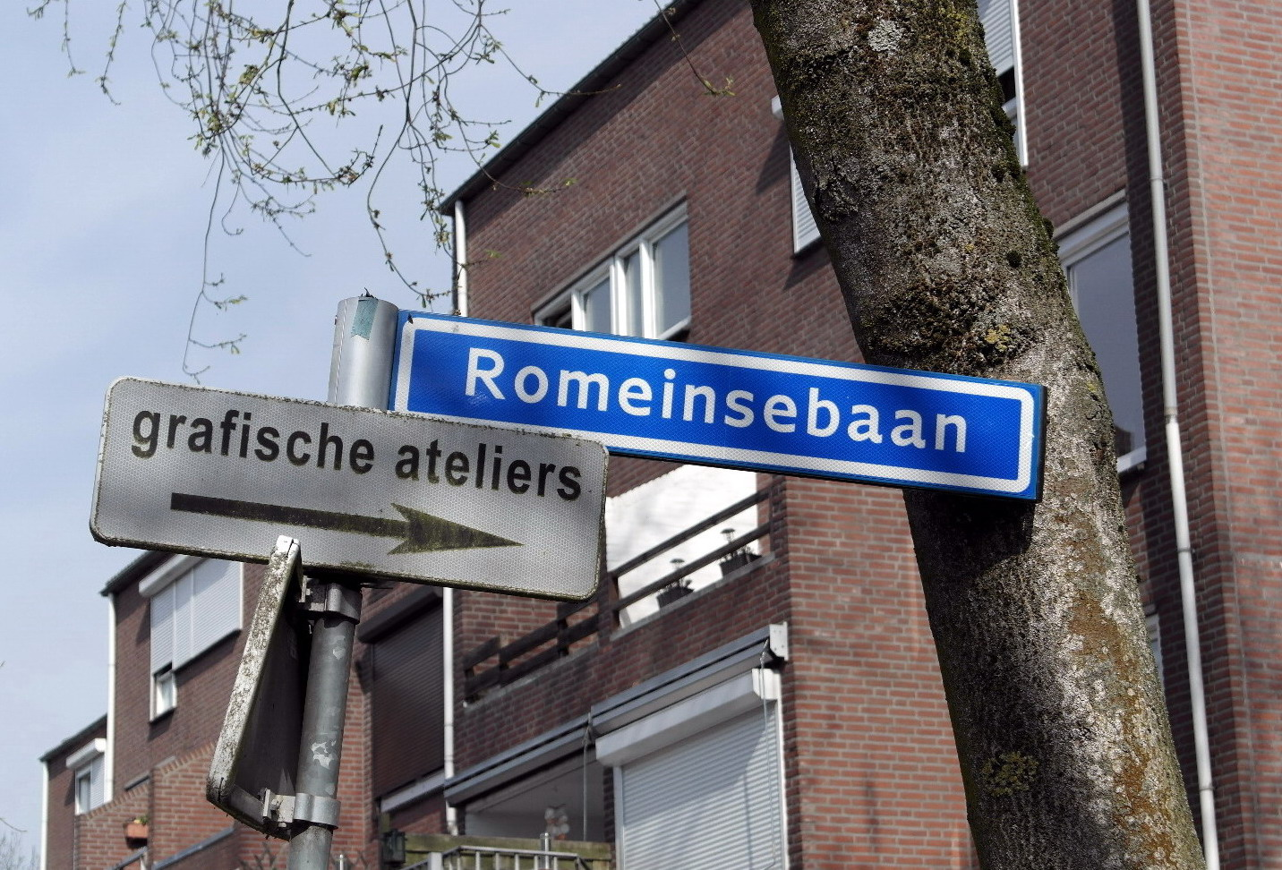 Maastricht, the Netherlands. Road sign at Romeinsebaan in the southwestern neighbourhood of Daalhof. Archaeological finds indicate that Romeinsebaan ("Roman track") was once part of the Roman road from Boulogne-sur-Mer via Maastricht to Cologne.